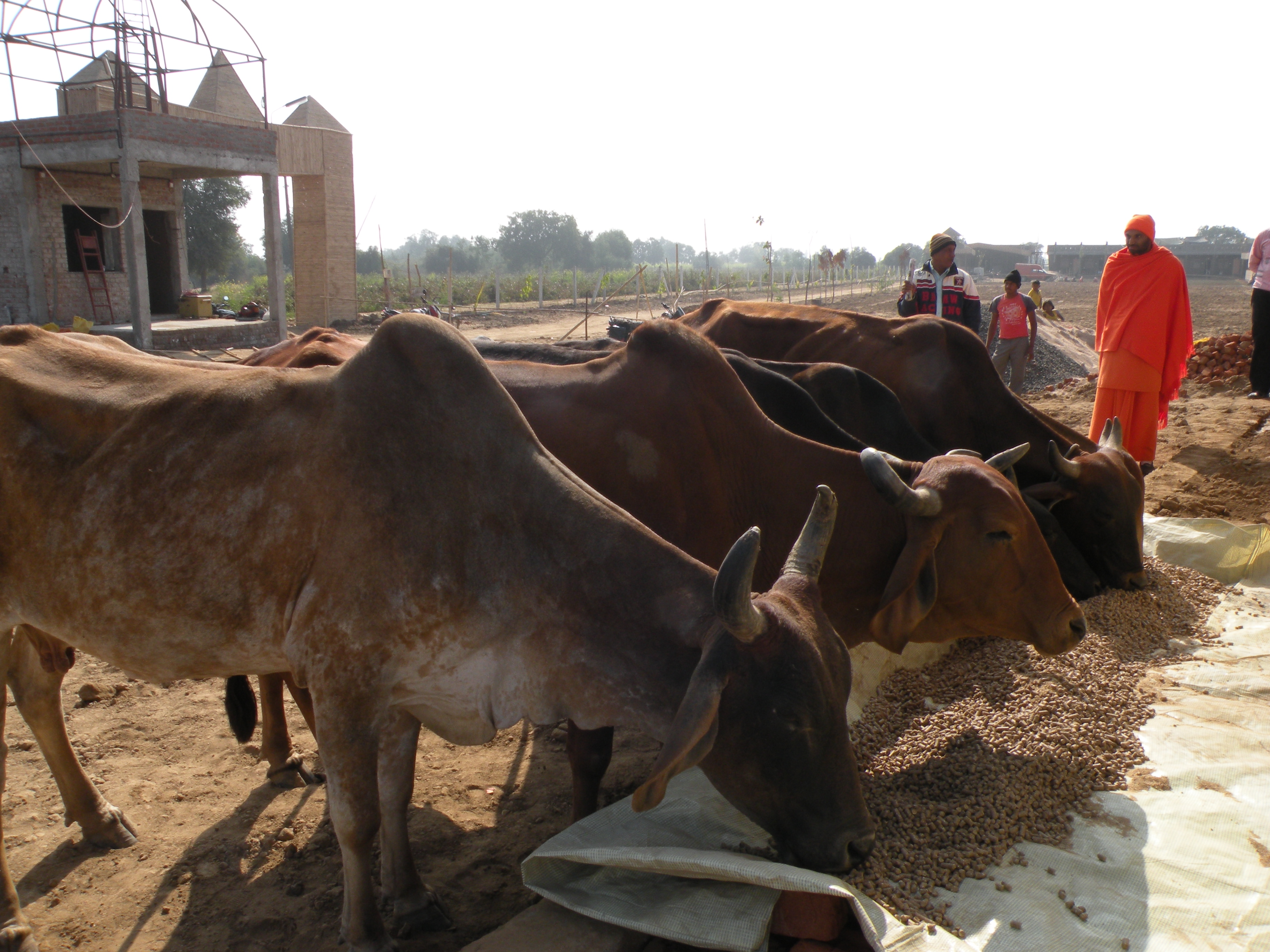 Activity of lakulishdham Ashram